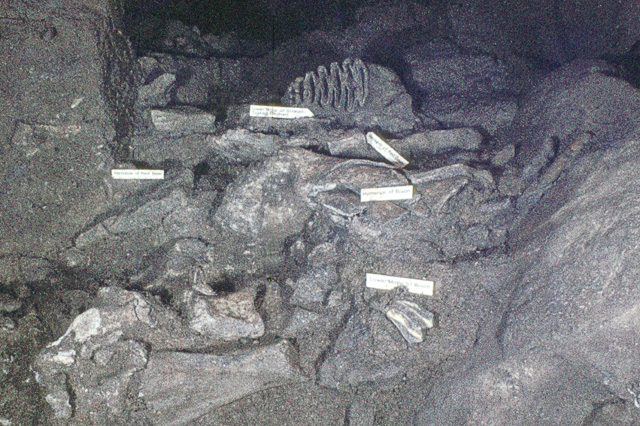 Bone Heap in Joint Mitnor Cave, Buckfastleigh This bone heap resulted when various animals fell down into the cave and died there. The labels are as follows: Top centre: Lower Molar of Straight-tusked Elephant; Left and Top-right: Vertebrae of red Deer; Centre-right: Humerus of Bison; Bottom-right: Lower Molar of Bison.